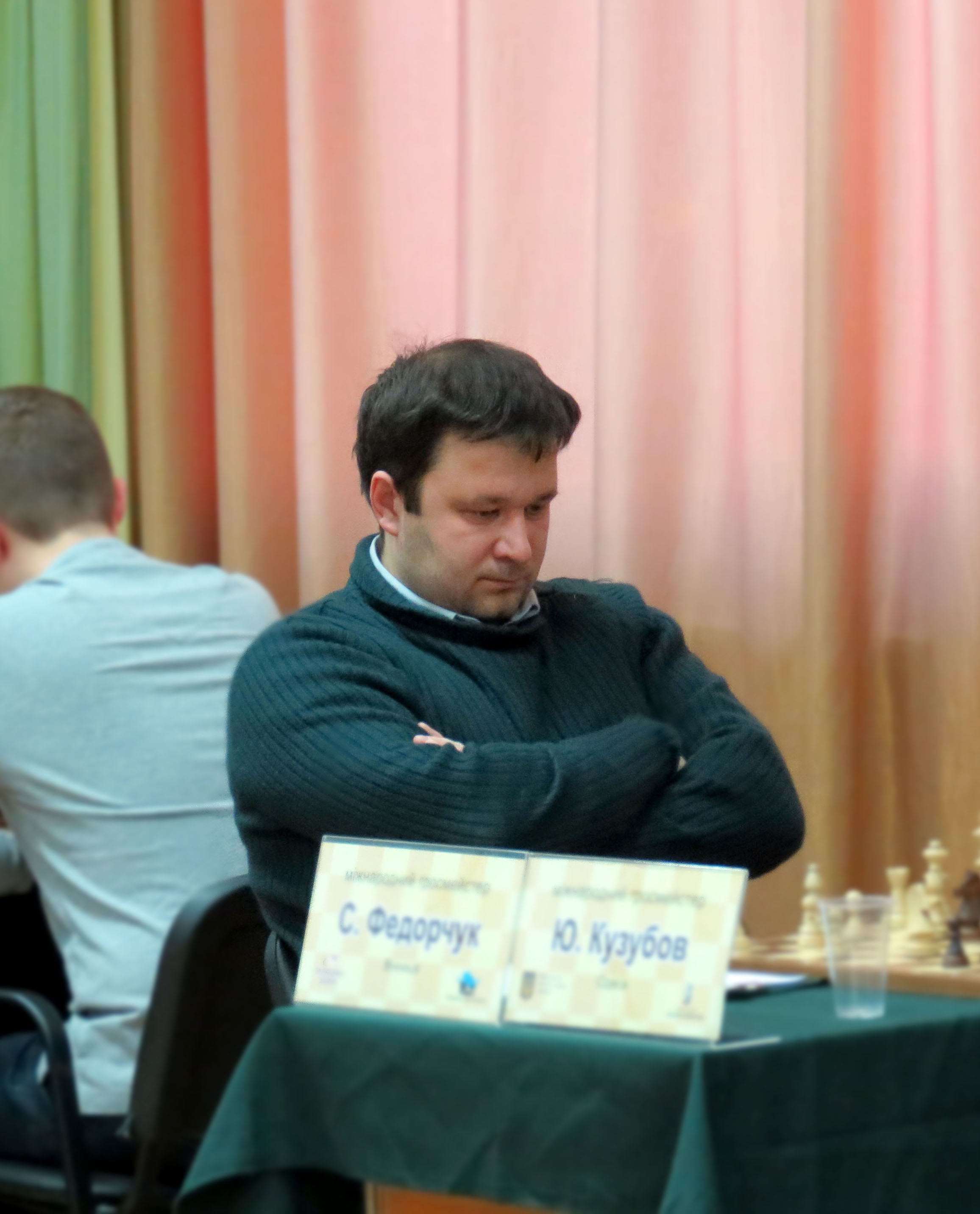 Fedorchuk Sergiy Ukraine championship (december 2015)